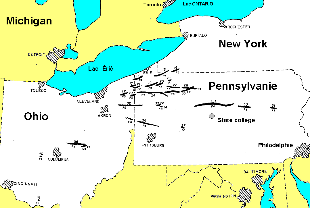 French version from map in on NOAA report showing the track of tornadoes in Ohio, Pennsylvania and NY (except two) during the May 31st, 1985 Outbreak. Below is the numbered list.